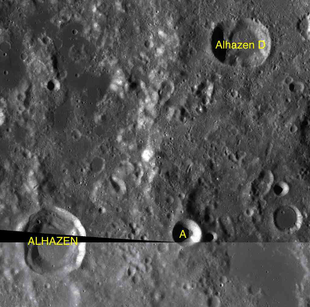 Parts of the charts LAC-45, LAC-63 used for the presentation